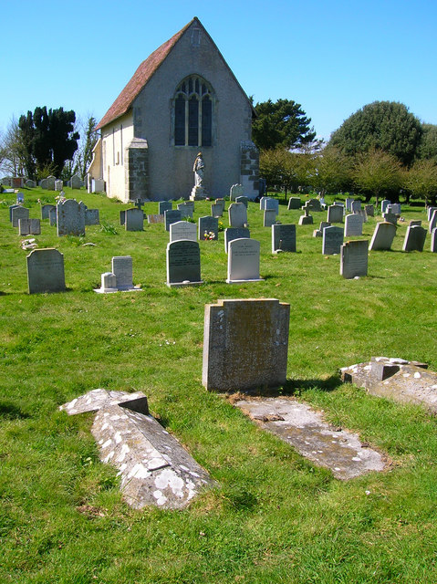 St Wilfrids Chapel, Church Norton, West Sussex, Great Britain. Consecrated in 1917 the chapel is actually the former chancel of Selsey parish church and dates back to around the 13th century.